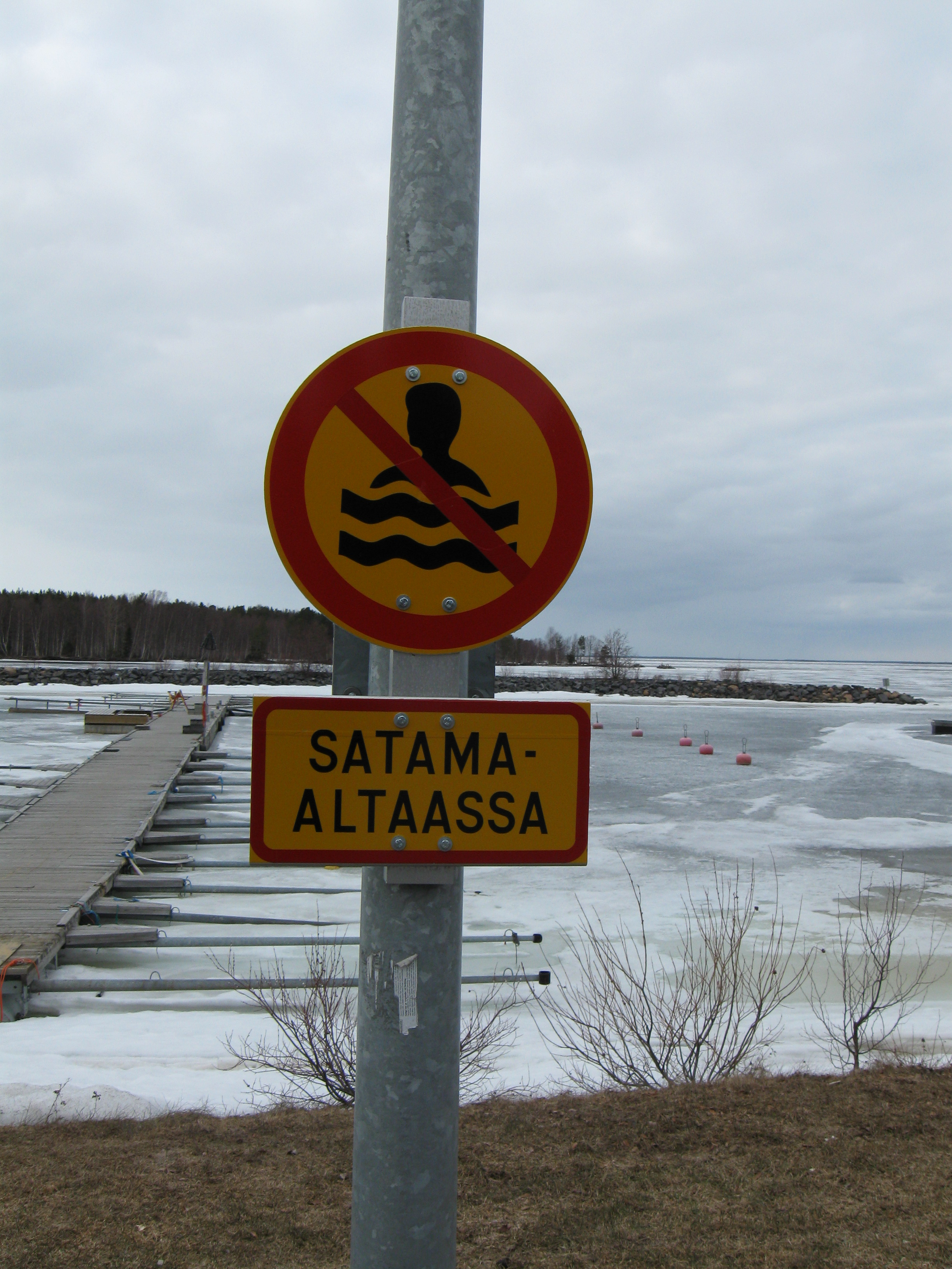 Swimming is not allowed in the Varjakka small boat harbour in Oulunsalo, Finland.